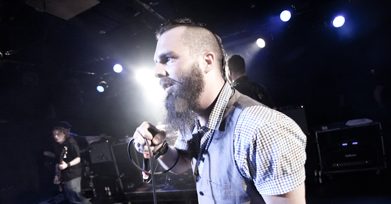 Jesse Leach member of Times of Grace